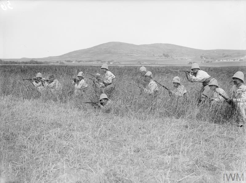 French soldiers ('marsouins') of the Infanterie Coloniale practising an advance at Mudros in May 1915. Part of the Ministry of Information First World War Official Collection